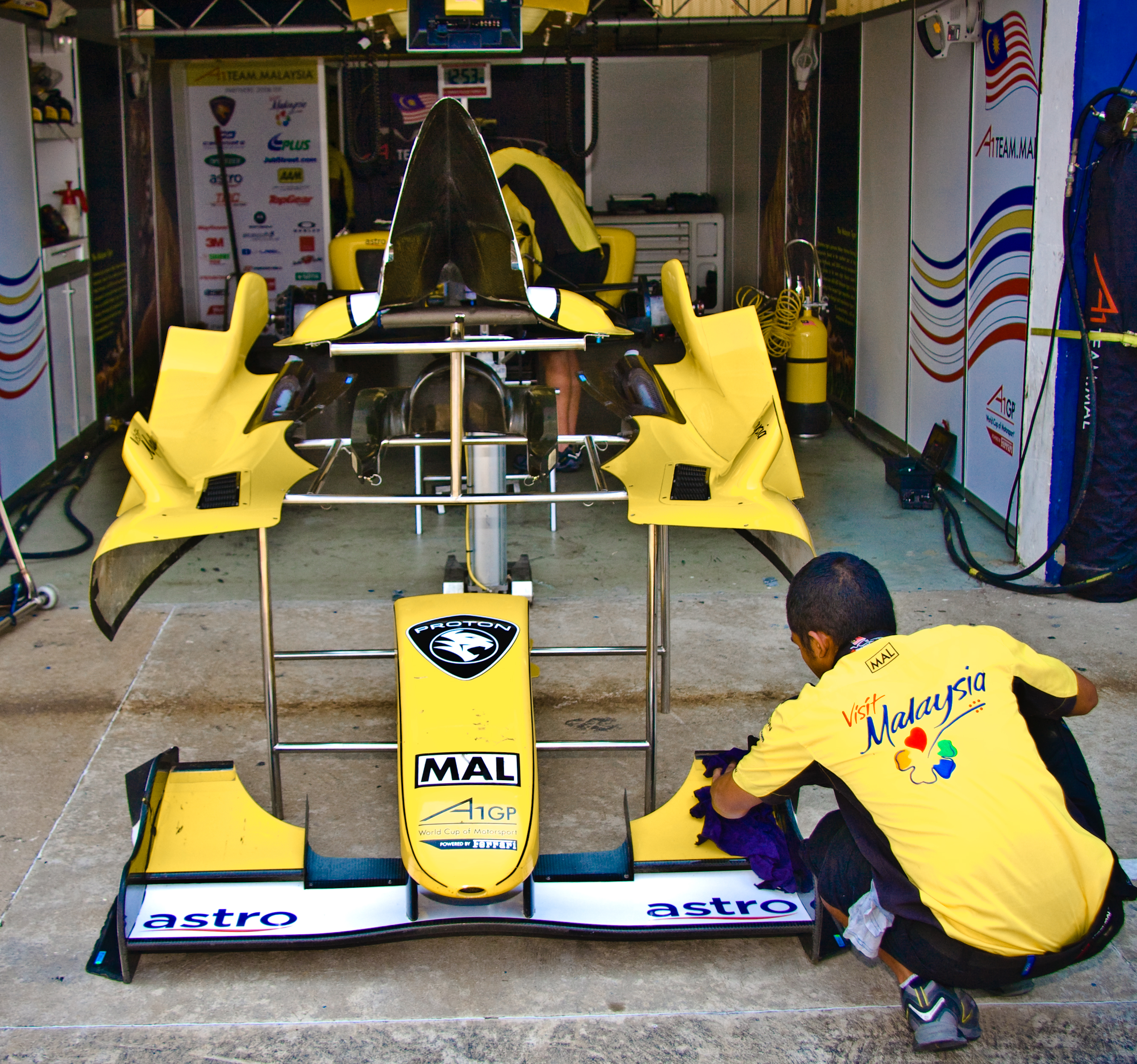 Team Malaysia @ A1 Grand Prix Kyalami South Africa 2009